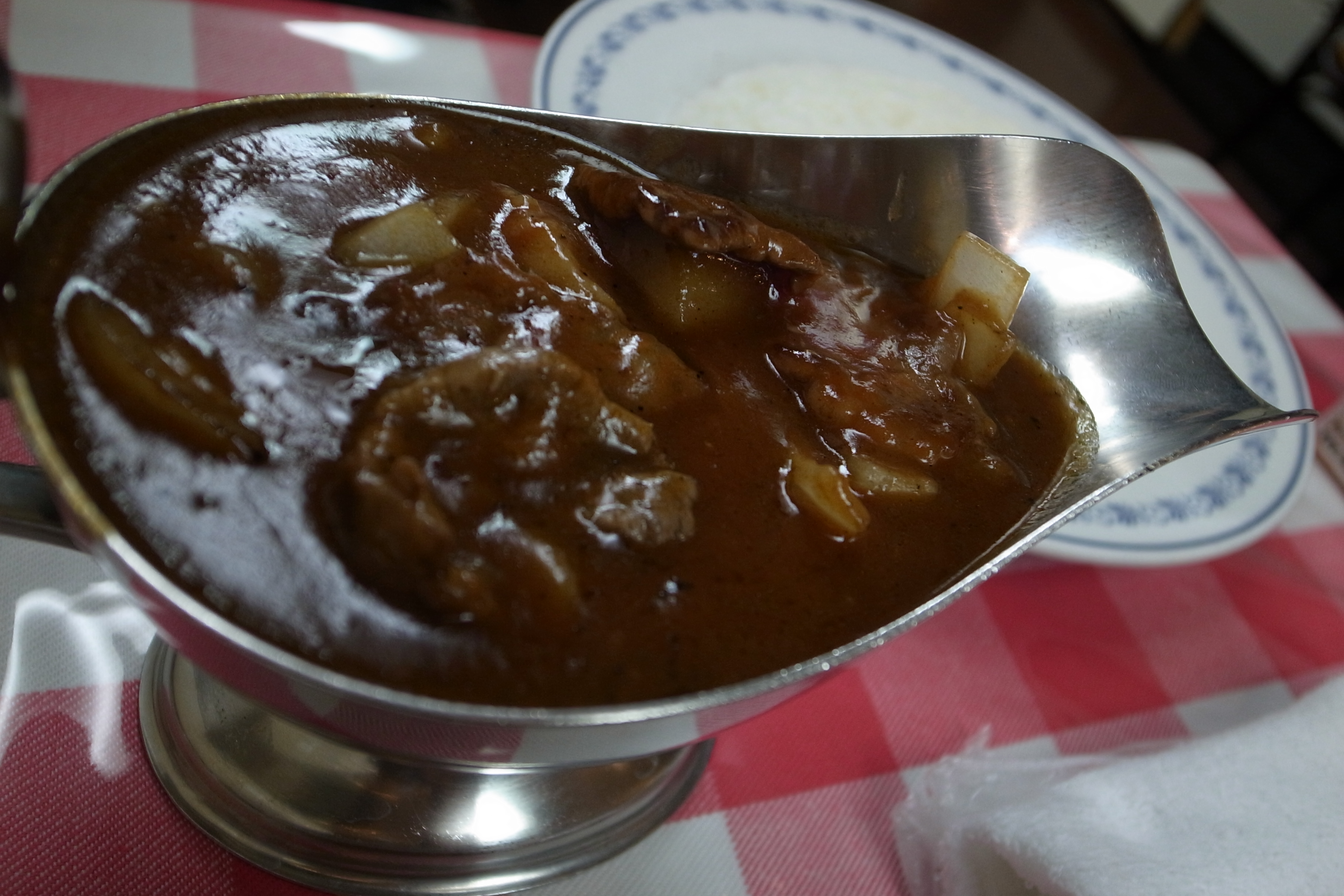 Hashed Beef & Rice, Renga-Tei, Ginza